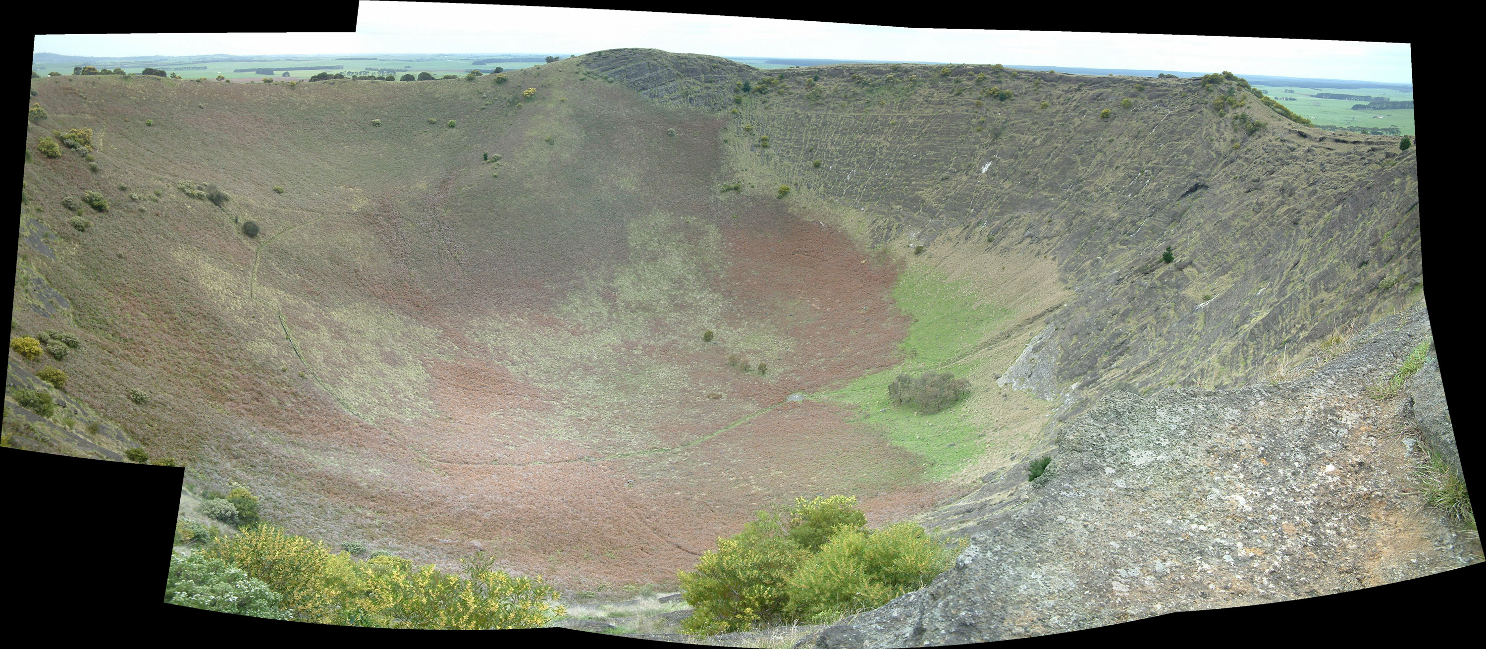 Image (panorama) of the Mt Schank volcano in South Australia, Australia.